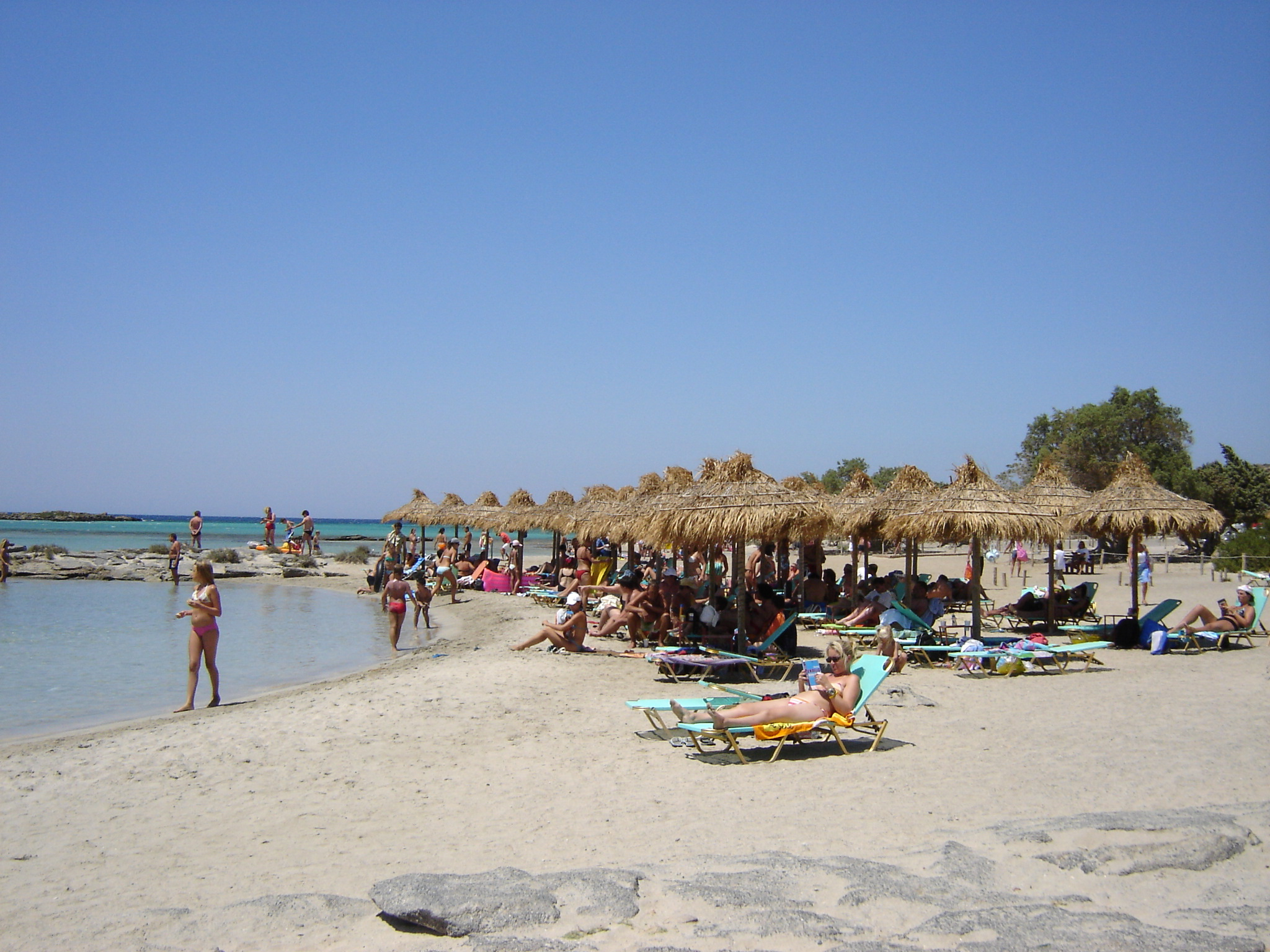 Wild beauty and crystal waters.